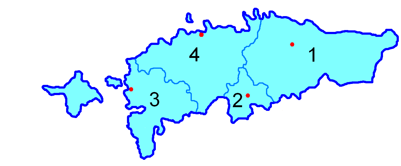 Circuits of the Estonia Governorate